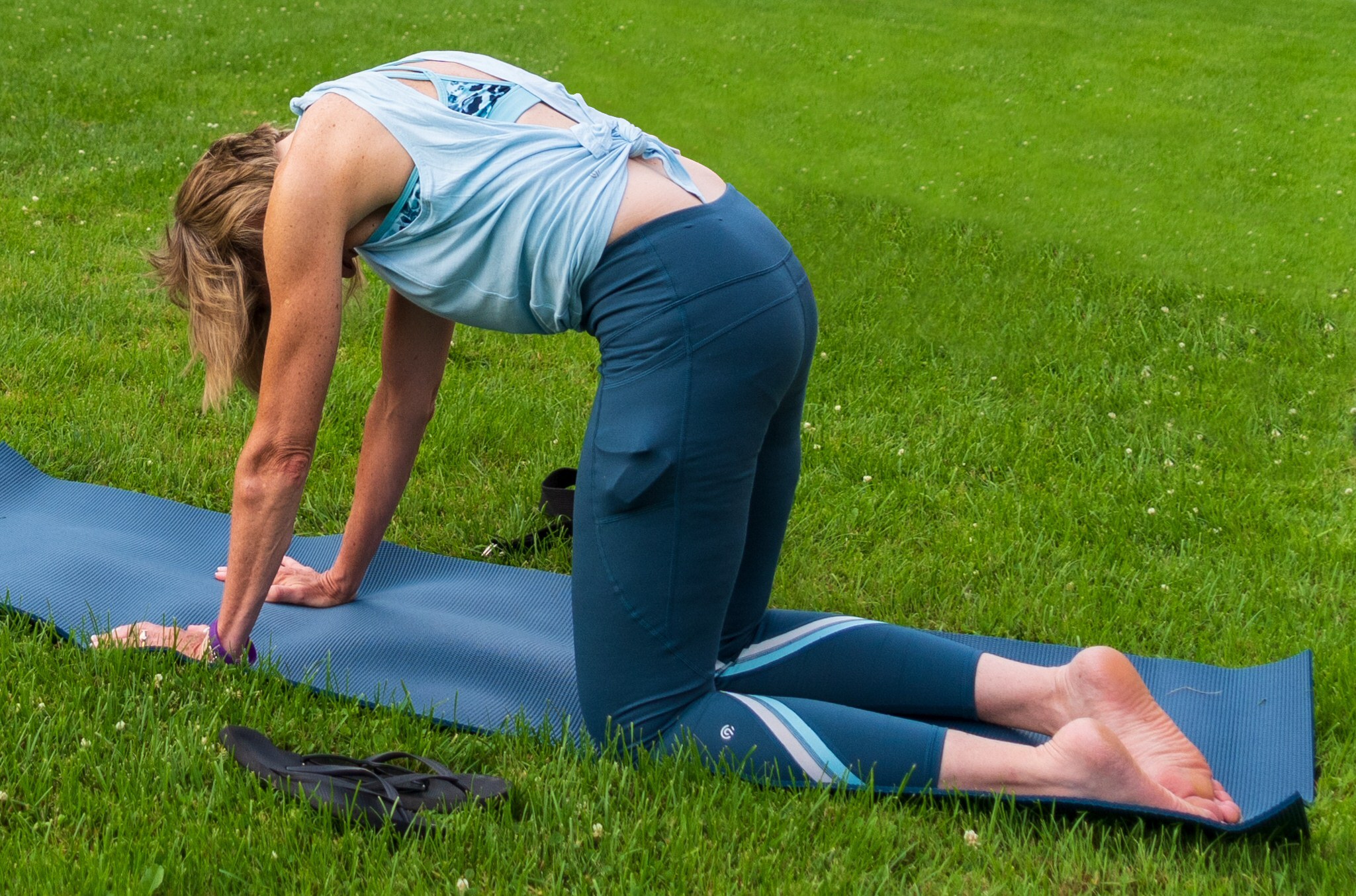 A yoga event on a lawn. "Yoga at Your Park" program at Declaration Park during Convention Days. Keywords: Declaration Park; yoga